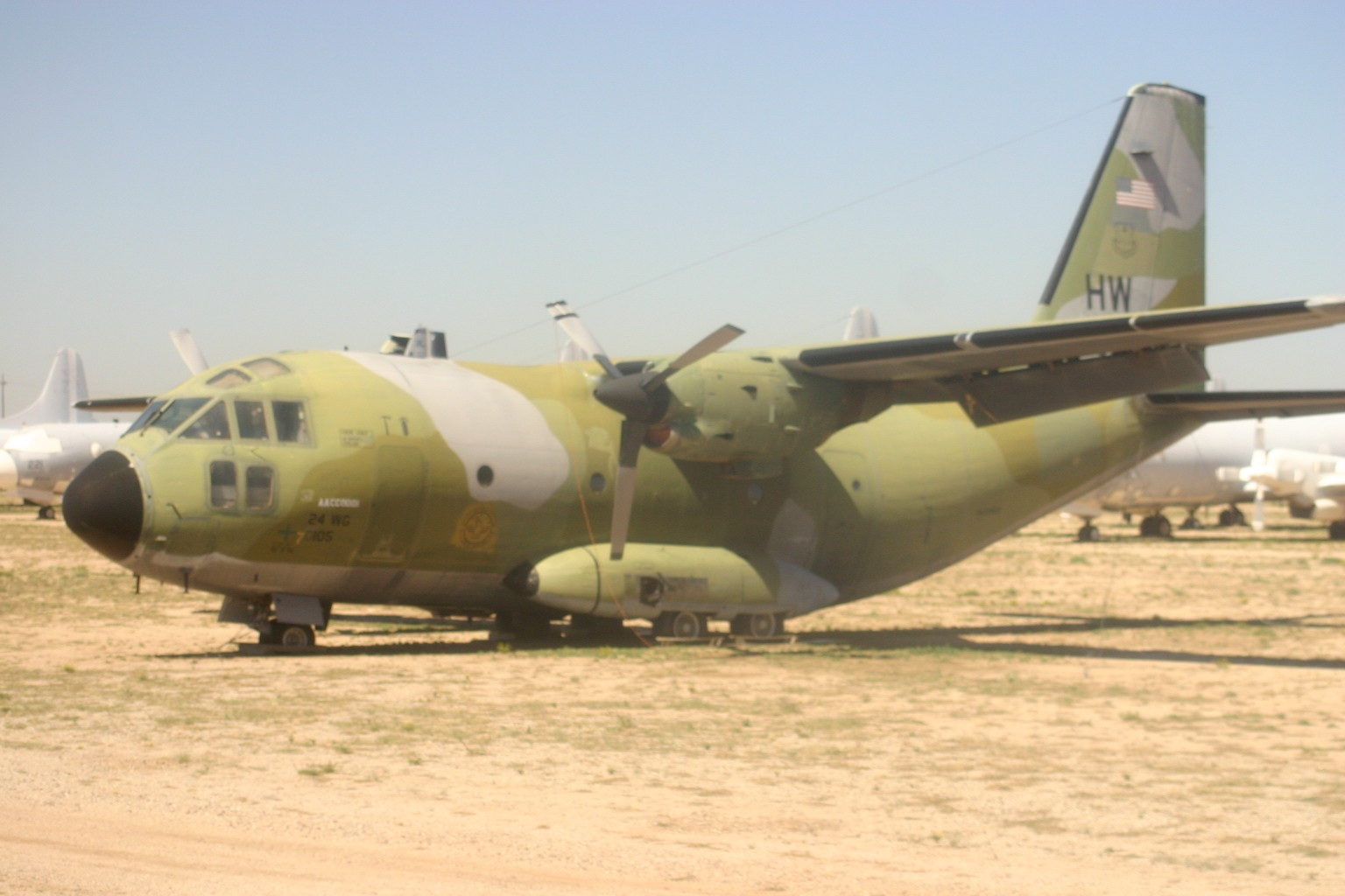 At Davis Monthan Air Force Base